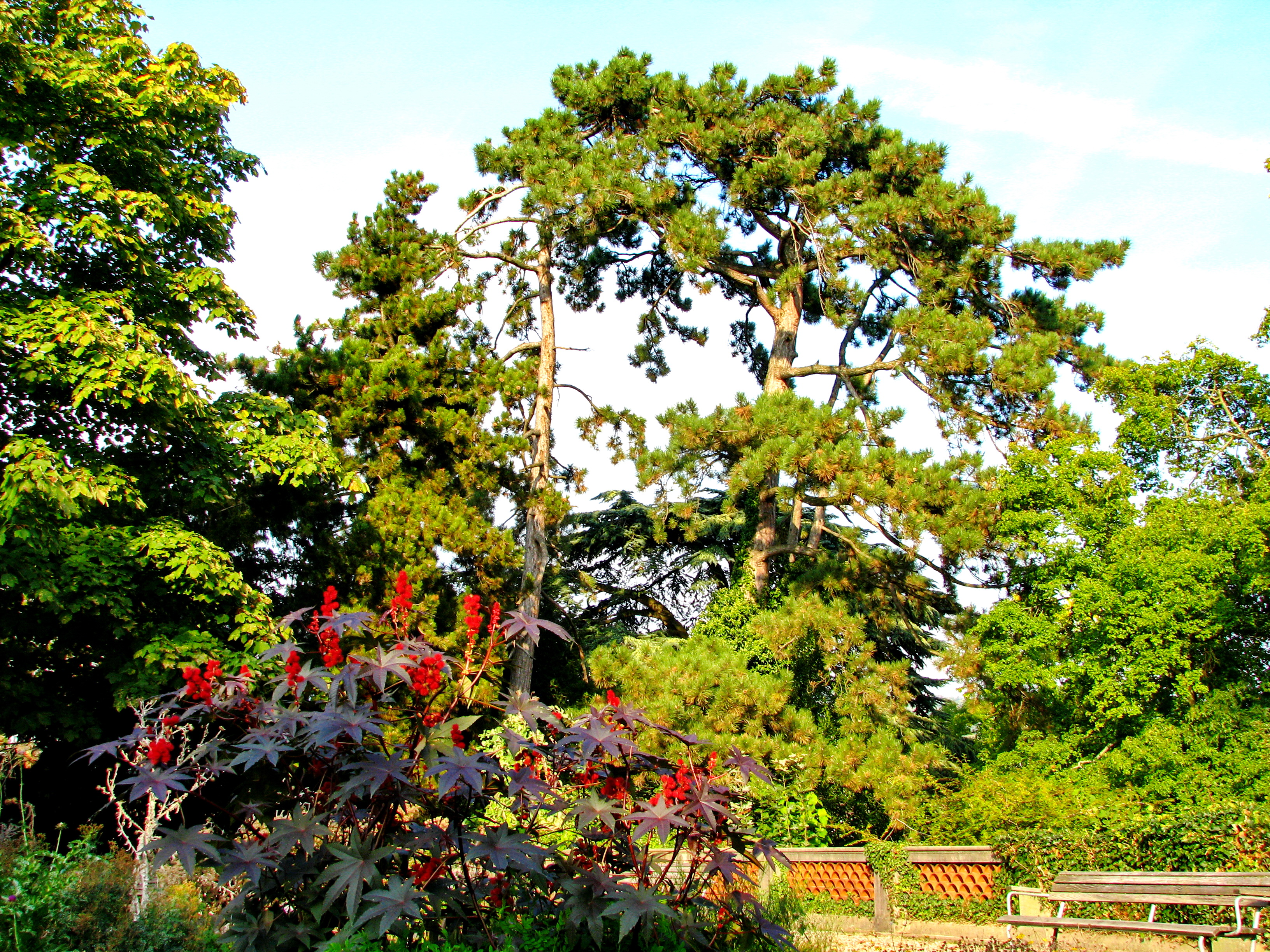 Zürich : Botanical Garden «zur Katz» ('Völkerkundeseum' (Museum of Ethnology), University of Zürich).